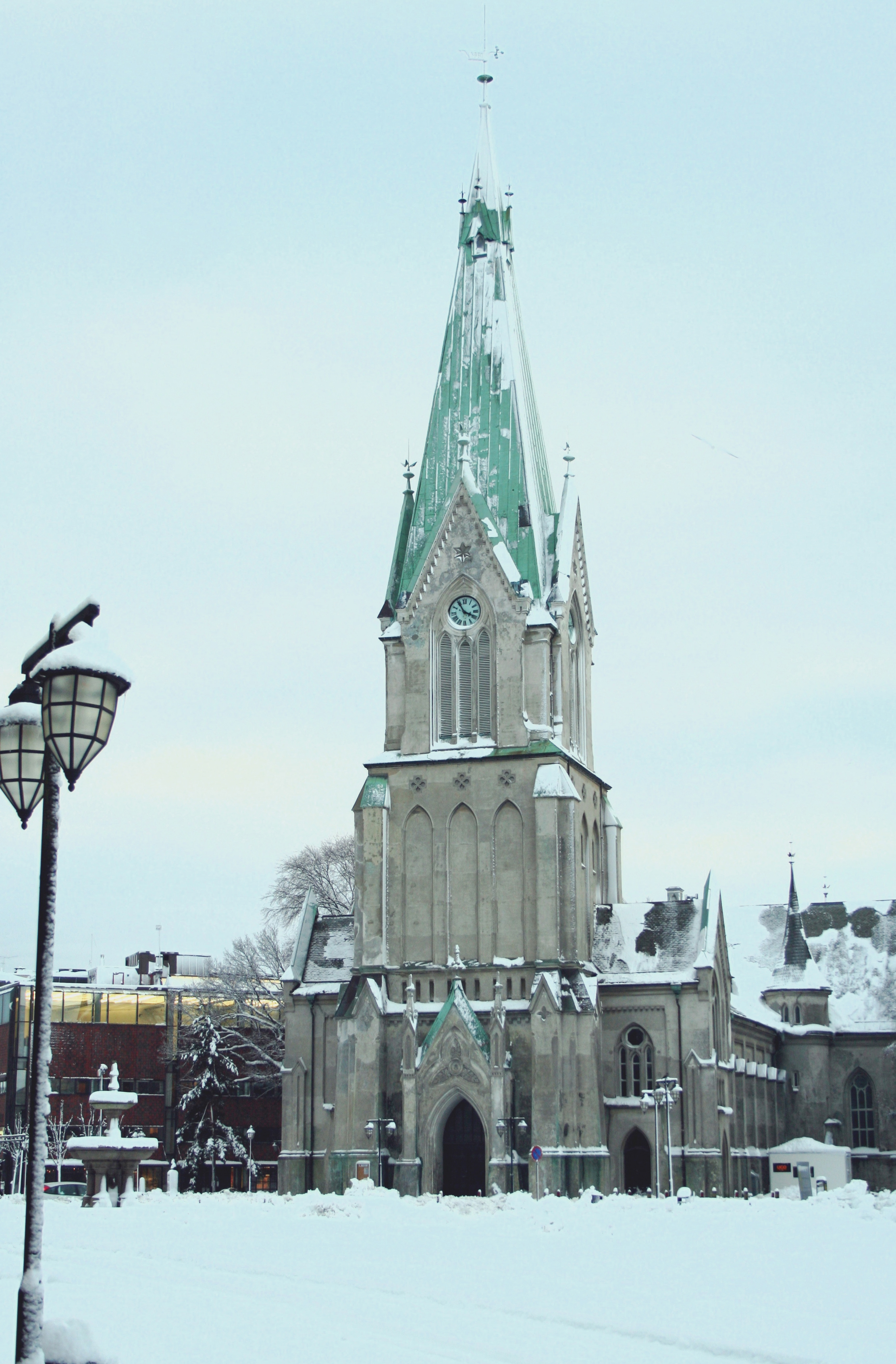 Kristiansand church, Kristiansand, Kristiansand.